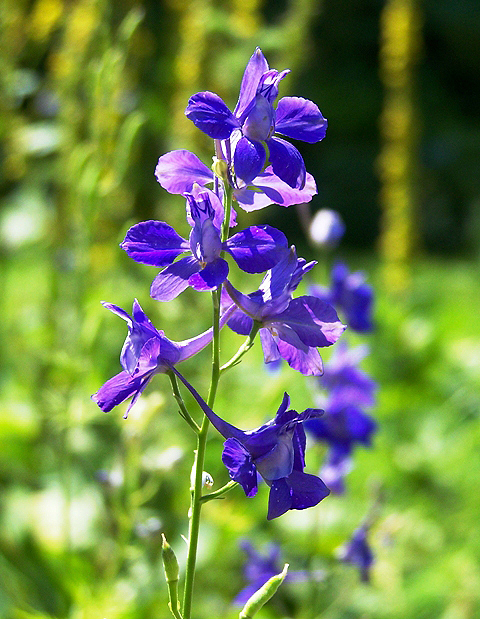 Consolida regalis S.F. Gray Common name: royal knight's-spur